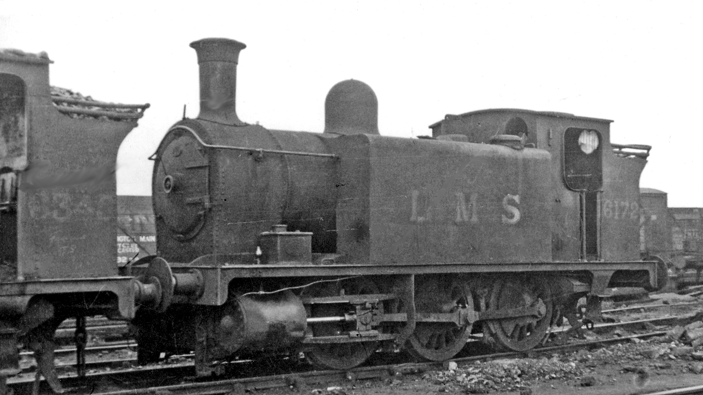 ex-Caledonian 2F 0-6-0 Dock tank at Motherwell Locomotive Depot. A class introduced by McIntosh in 1911, No. 16172 survived (as BR 56172) until 9/60.